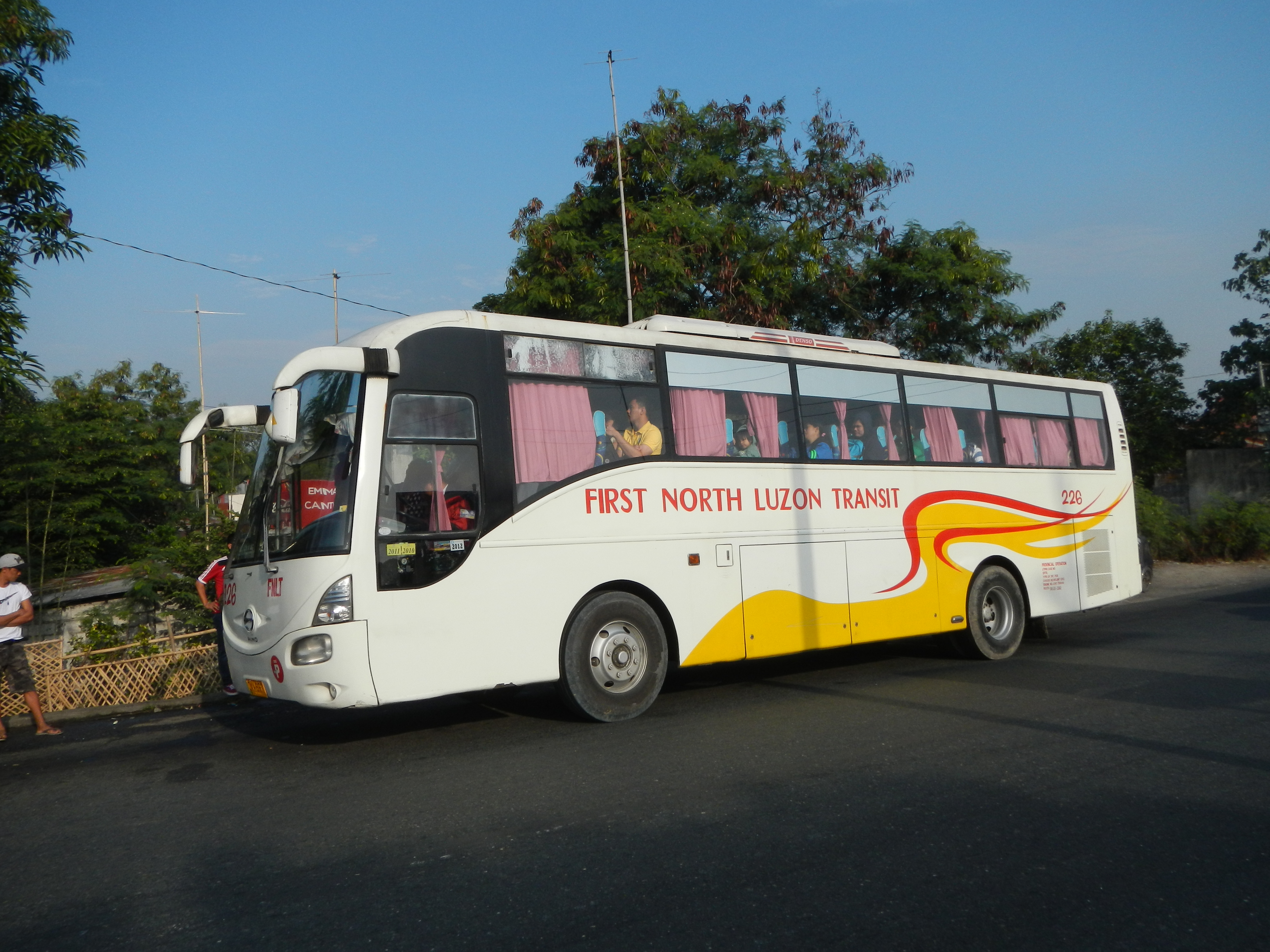 RJ Express, Inc. and First North Luzon Transit buses at Santa Monica, San Simon, Pampanga NLEX.